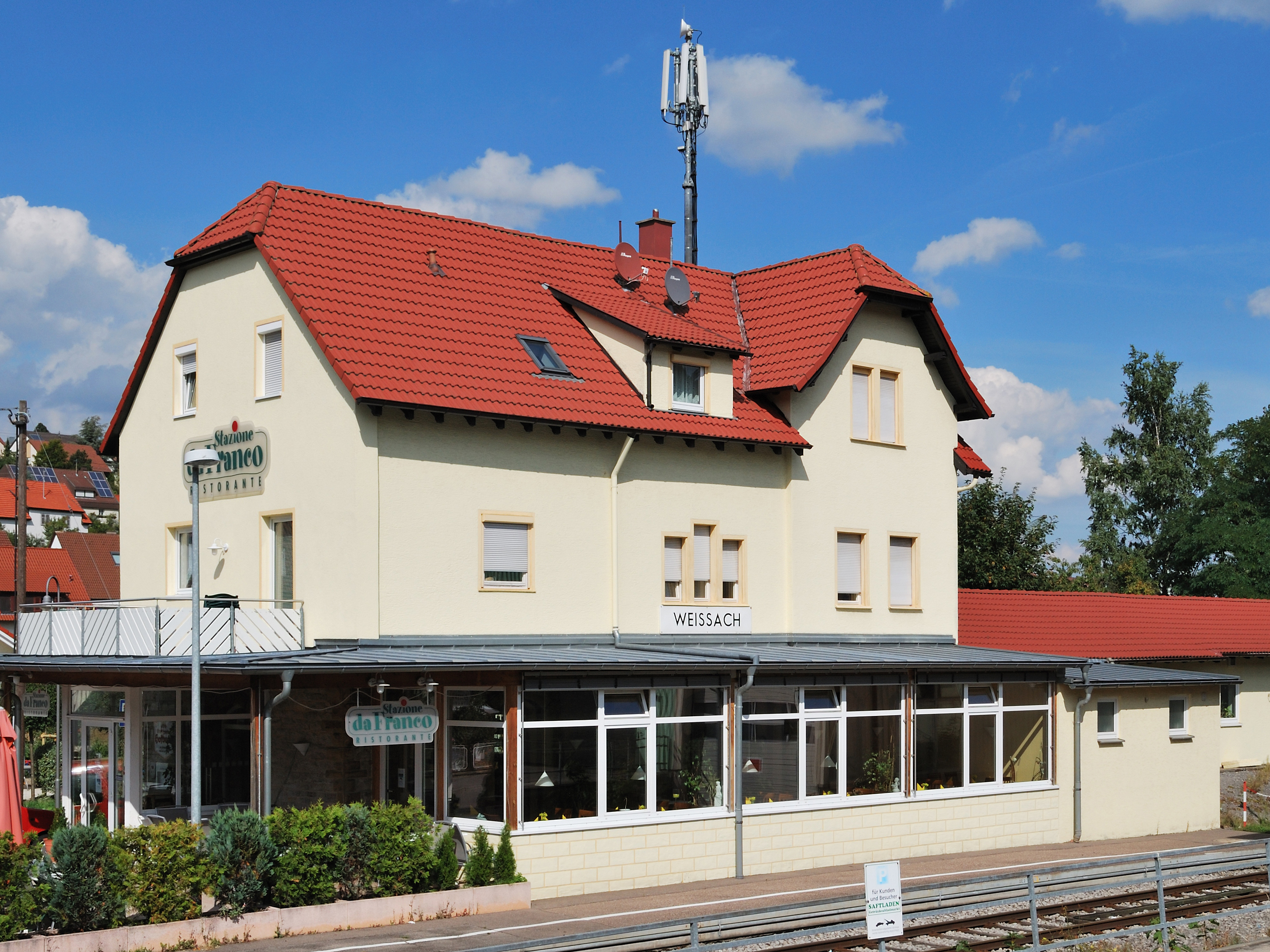 The railway building in Weissach in Southern Germany.